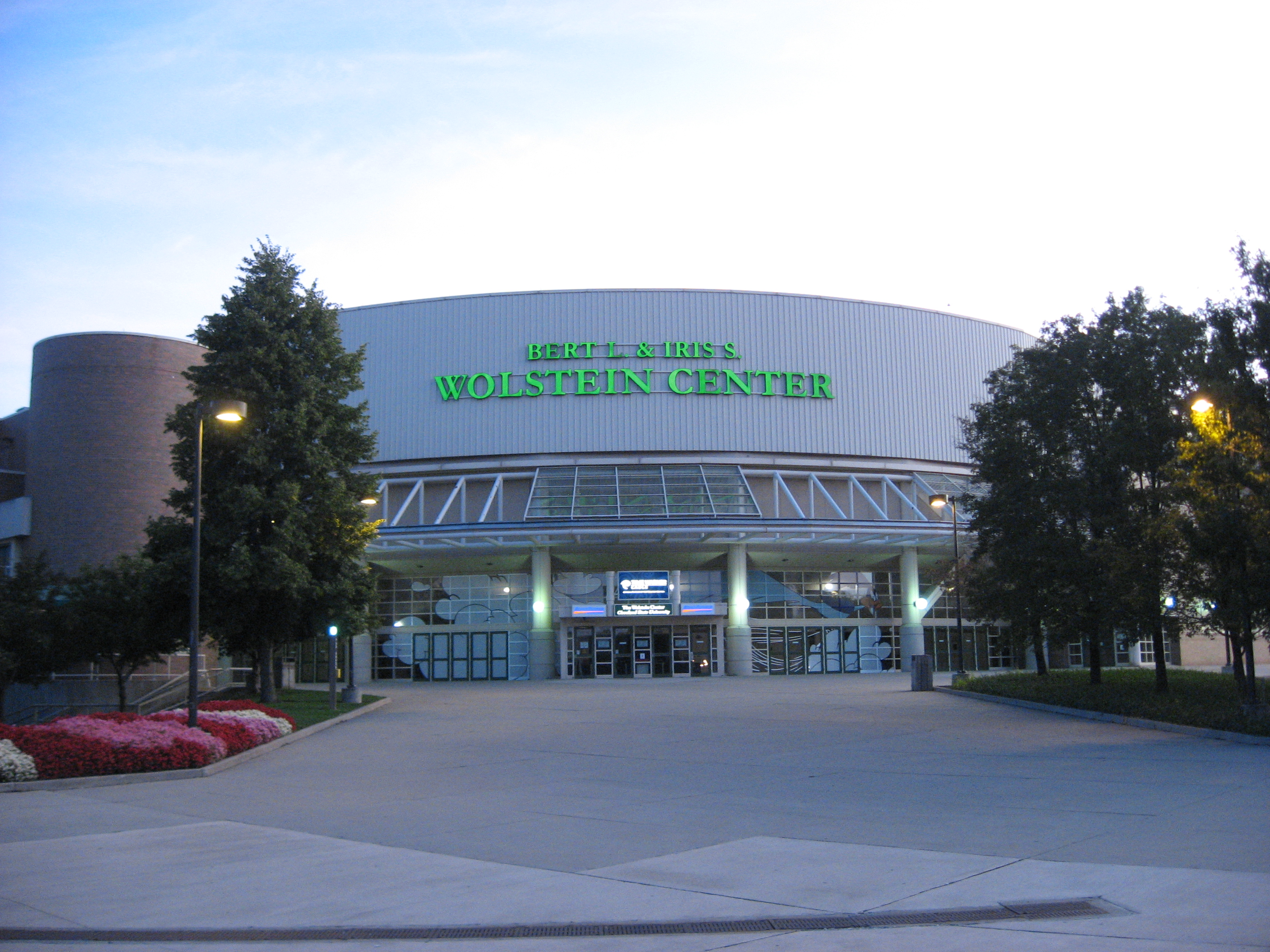 Northeastern entrance to the Bert L. & Iris S. Wolstein Convocation Center, a sports and concert arena on the campus of Cleveland State University in Cleveland, Ohio, United States. Completed in 1991, the Wolstein Center's address is 2000 Prospect Avenue.